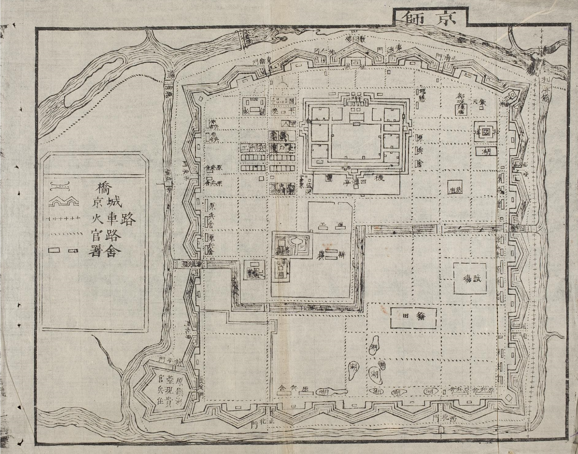 The Royal City of Hue in Vietnam, Nguyen Dynasty.